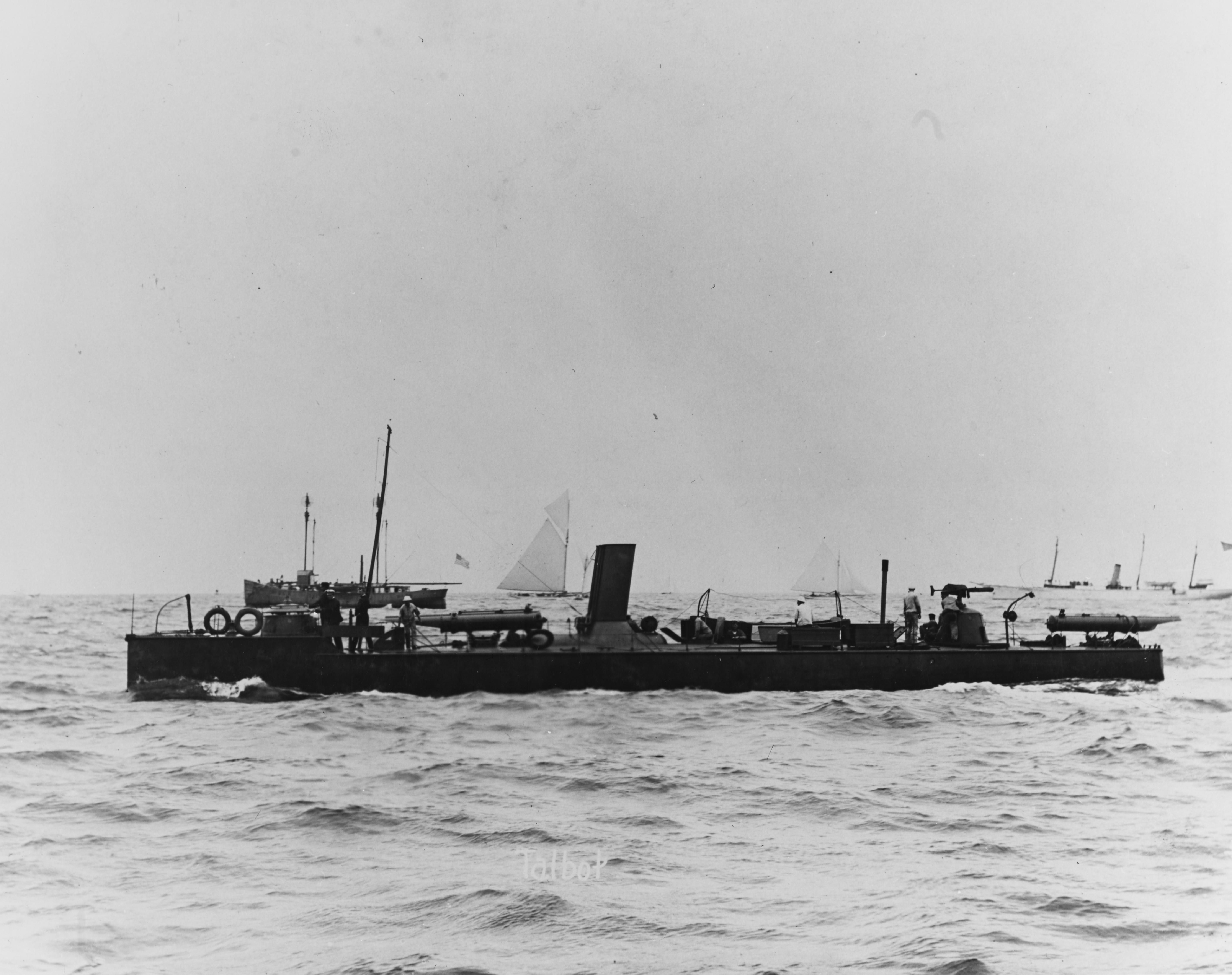 USS Talbot (Torpedo Boat # 15) underway, circa the early 1900s. U.S. Naval History and Heritage Command Photograph.